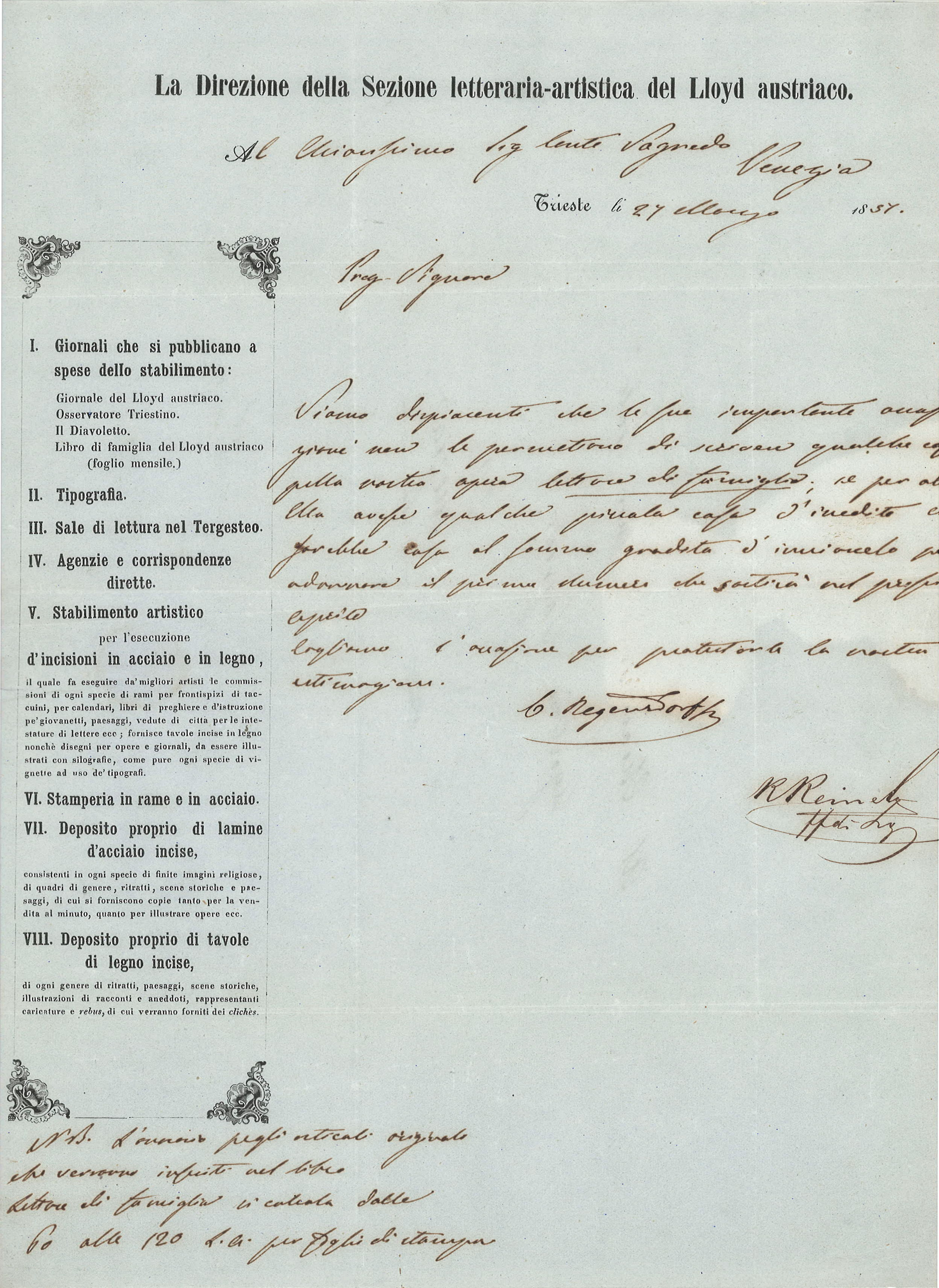 Letter of the management of the Austrian Lloyd, 2nd section, to Agostino Sagredo (185703/27).jpg